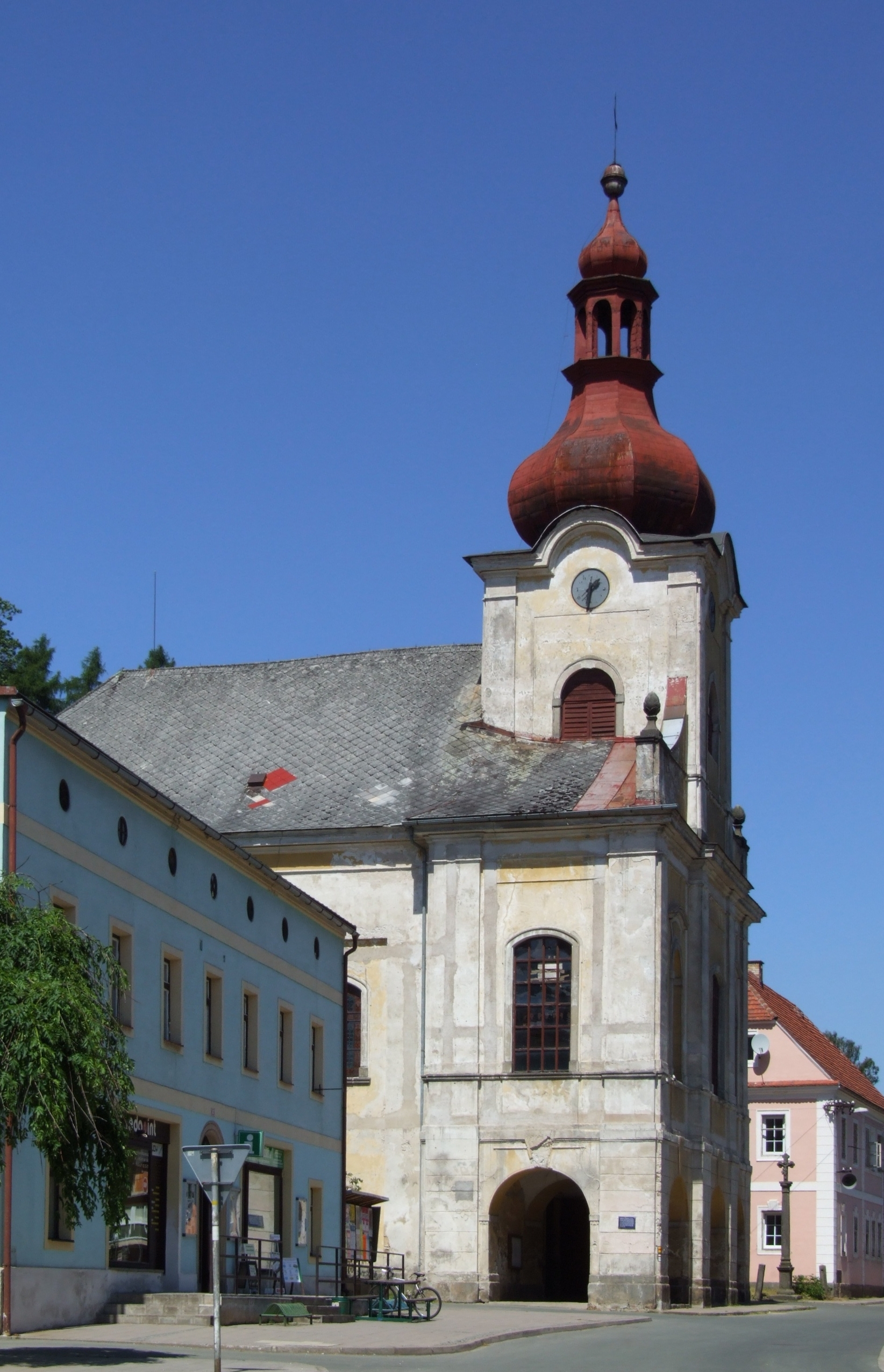 St. Lawrence Church in Teplice nad Metují (Czech Republic)